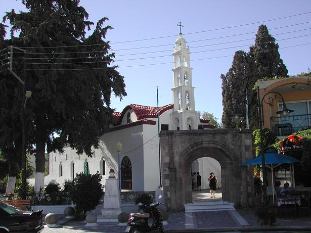 Psinthos Church